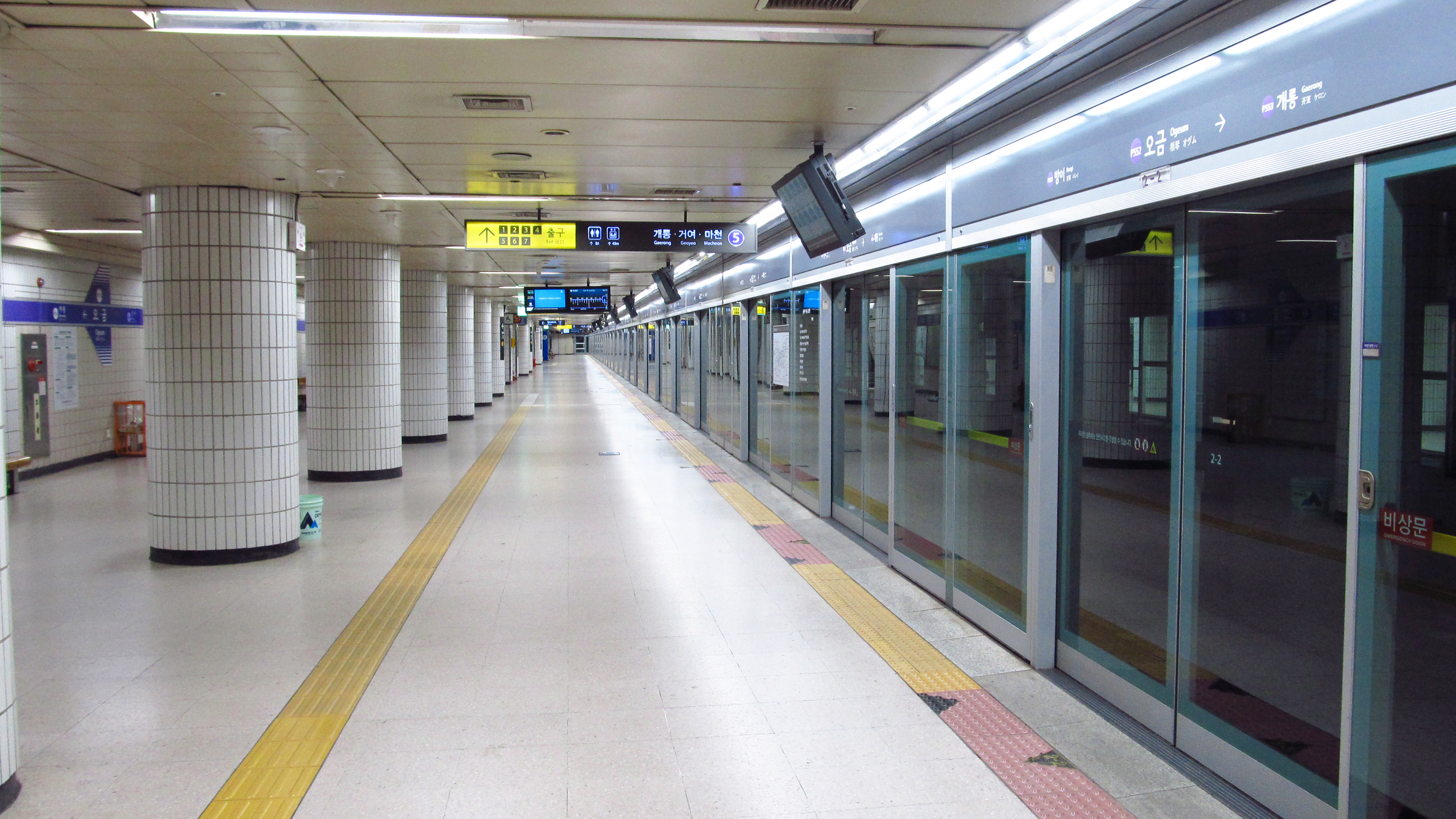 The platform at Ogeum Station on Seoul Subway Line 5 in Songpa-gu, Seoul, Republic of Korea(South Korea)